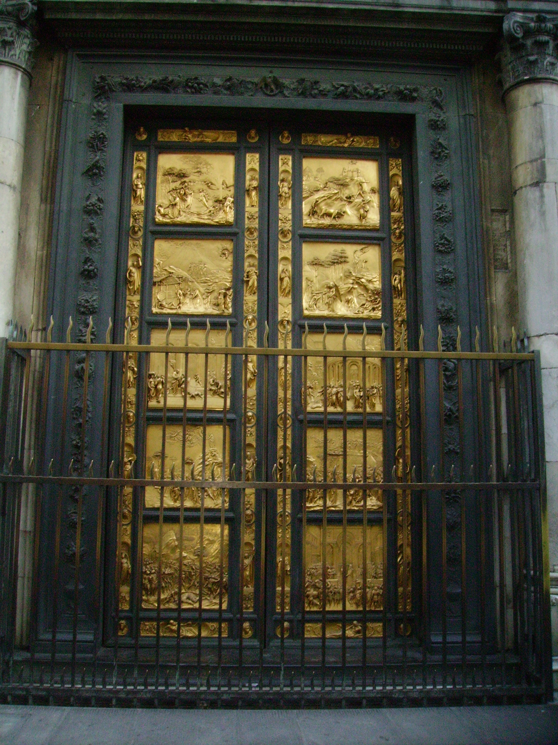 The Gates of Paradise by Lorenzo Ghiberti at Florence.